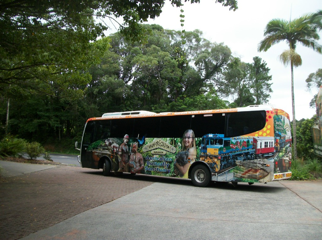 A tour Bus at Rainforestation Cairns